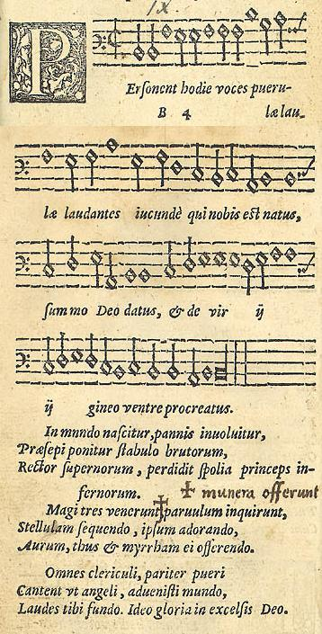 The first page of Personent hodie in the original version of the Piae Cantiones